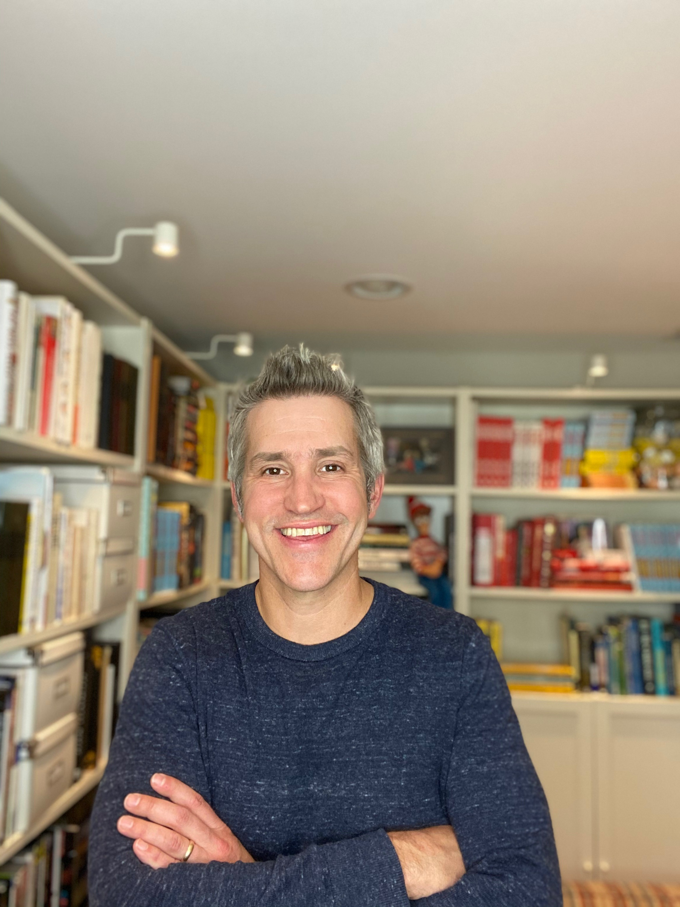 Jon Acuff circa 2020